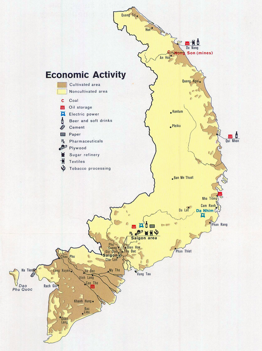 From the Virtual Vietnam Archive ( Produced by the CIA.